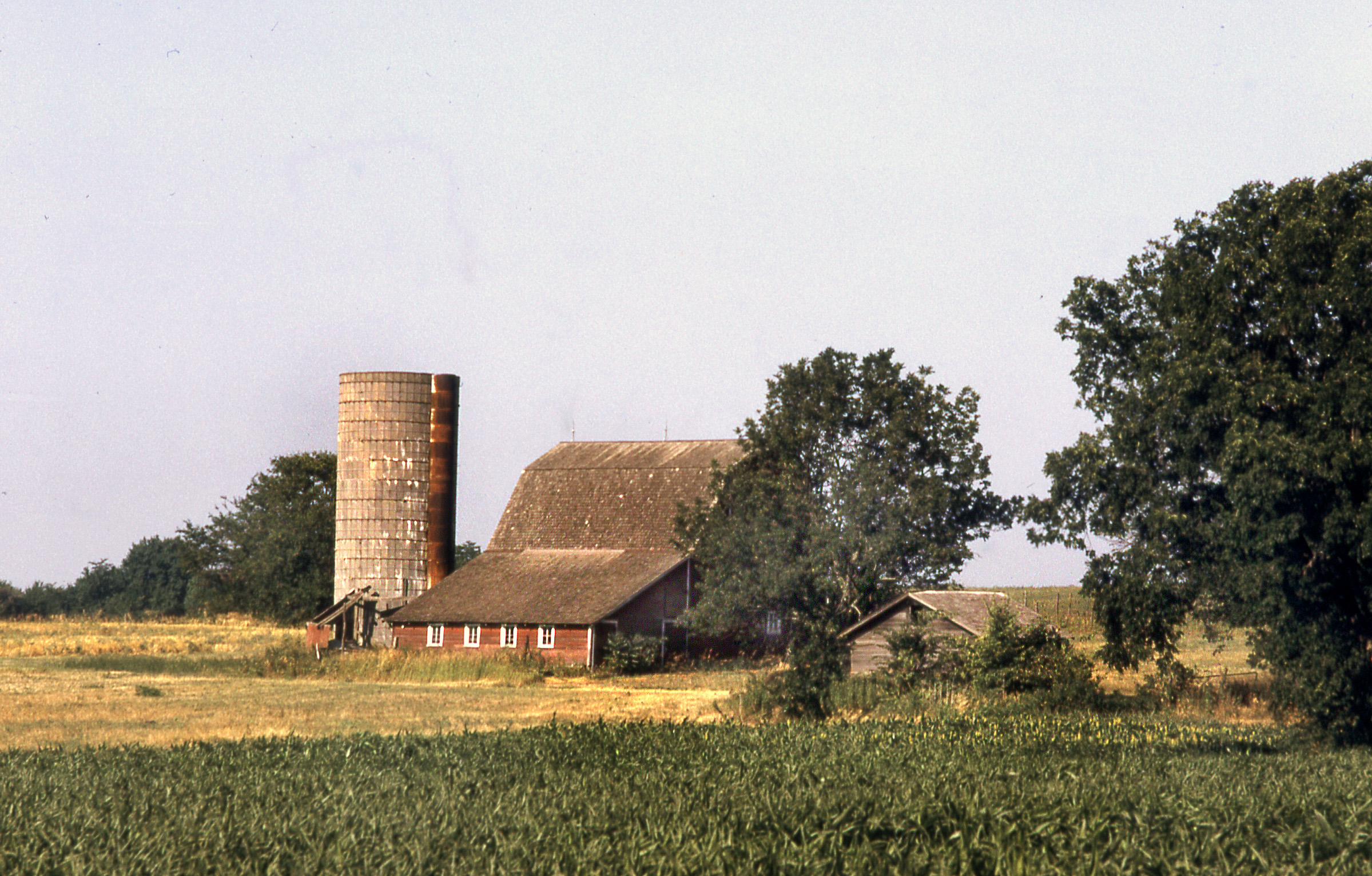 A farm in Kansas, pic taken near Topeka